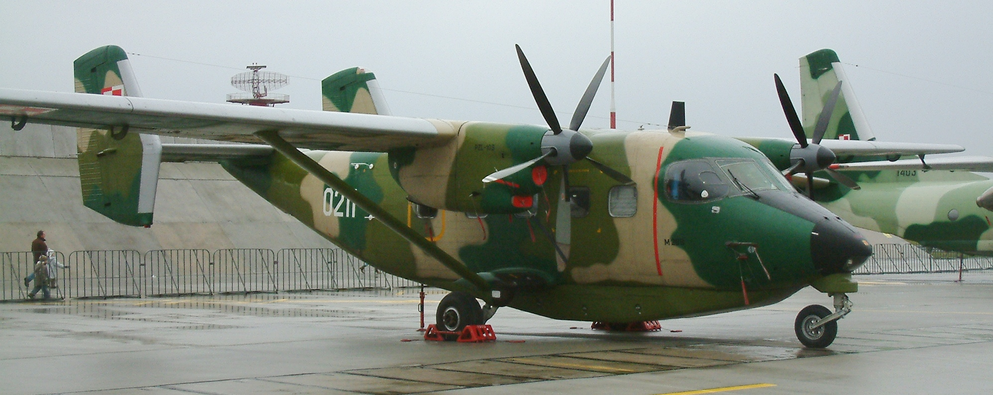 PZL M-28B Bryza #0211 of Polish Air Forces, 31st. Air Base Poznań-Krzesiny